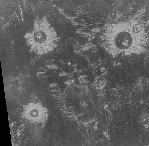 Magellan radar image of the "crater farm", showing the craters (clockwise from top left) Danilova, Aglaonice, and Saskia centered at 27 S, 339 E. Aglaonice is 65 km in diameter. This image is from C1-MIDR 30S333, CD-ROM MG_0002.